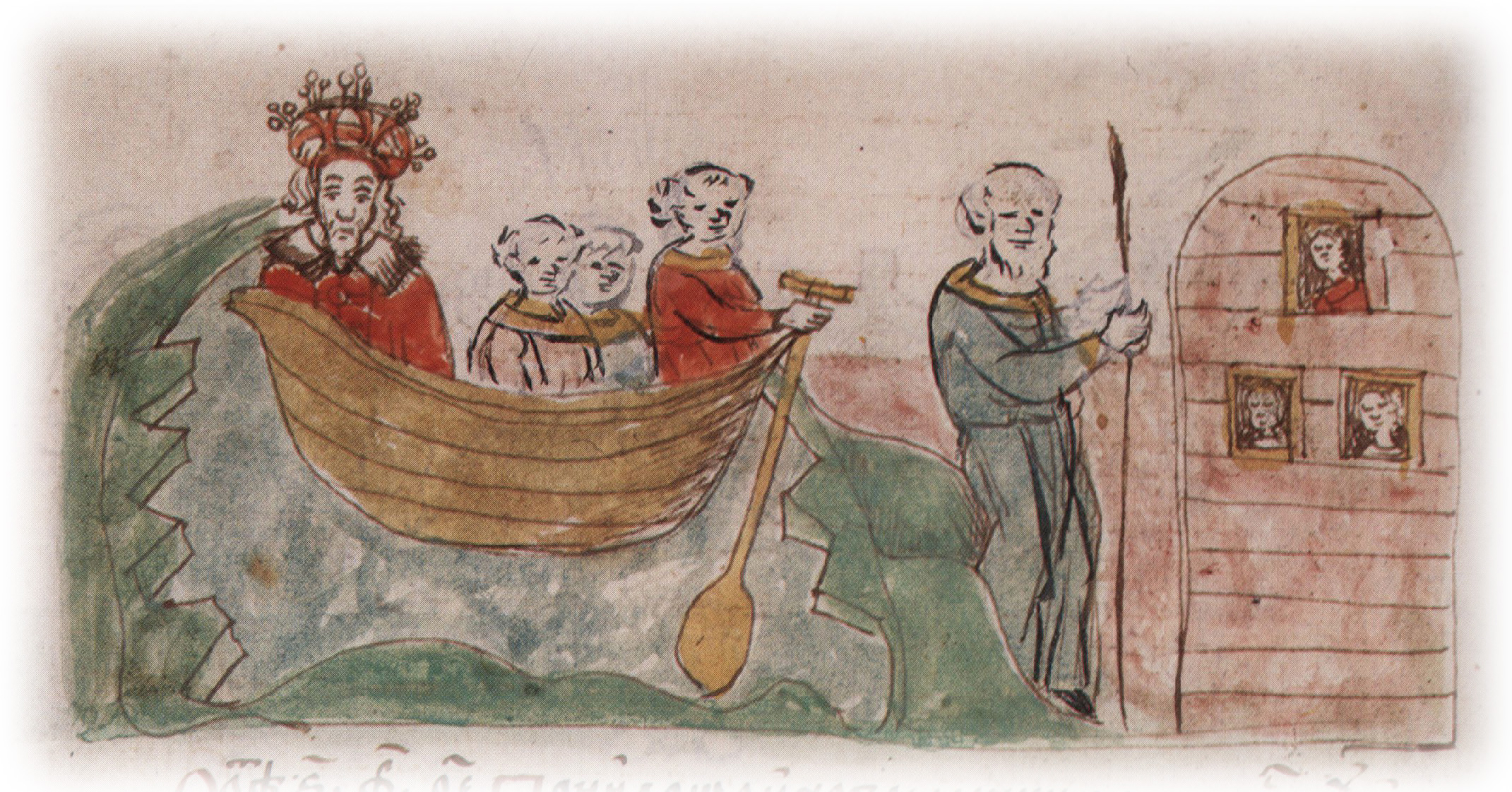 Vseslav of Polotsk - XI